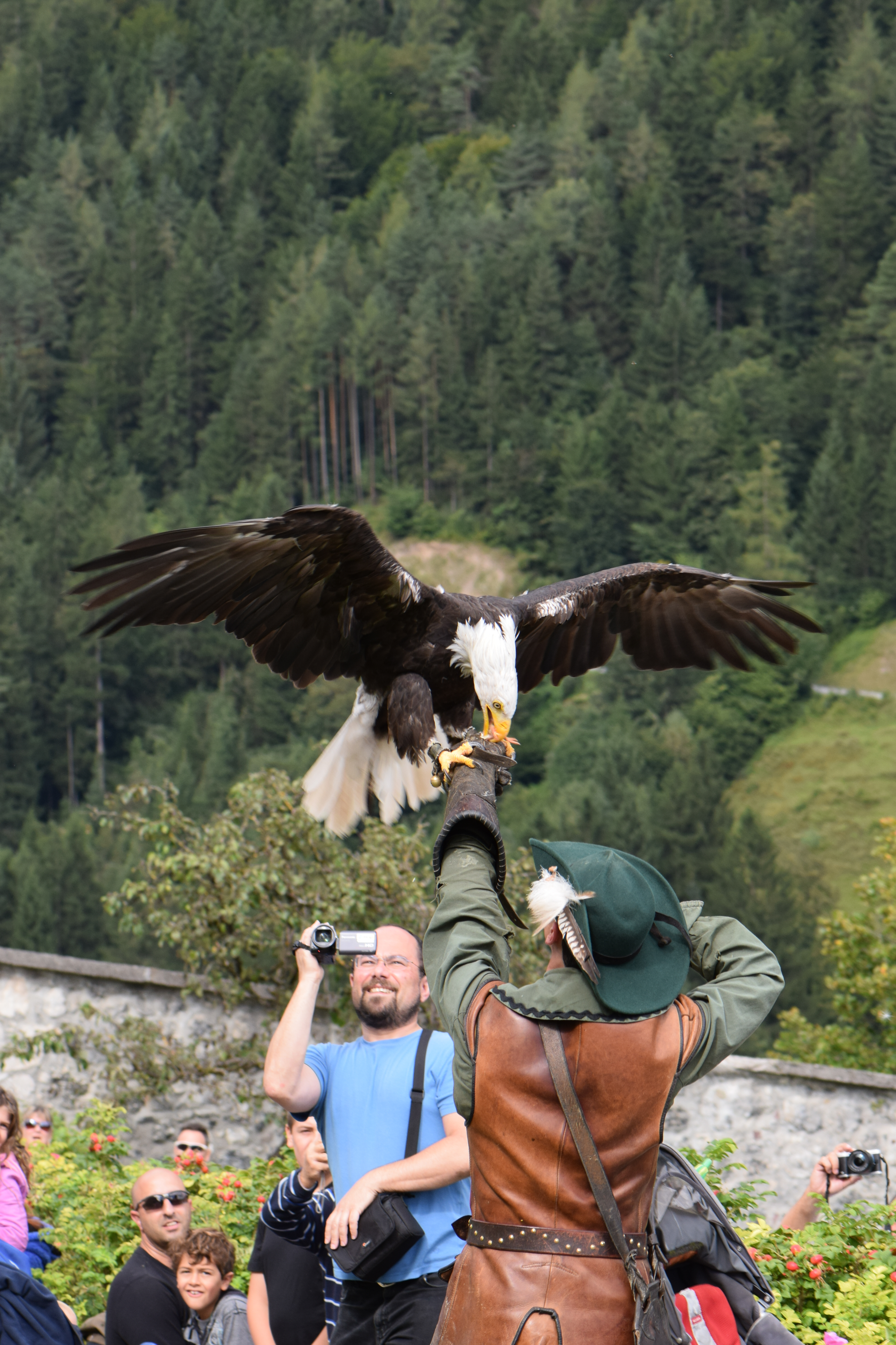 Austria